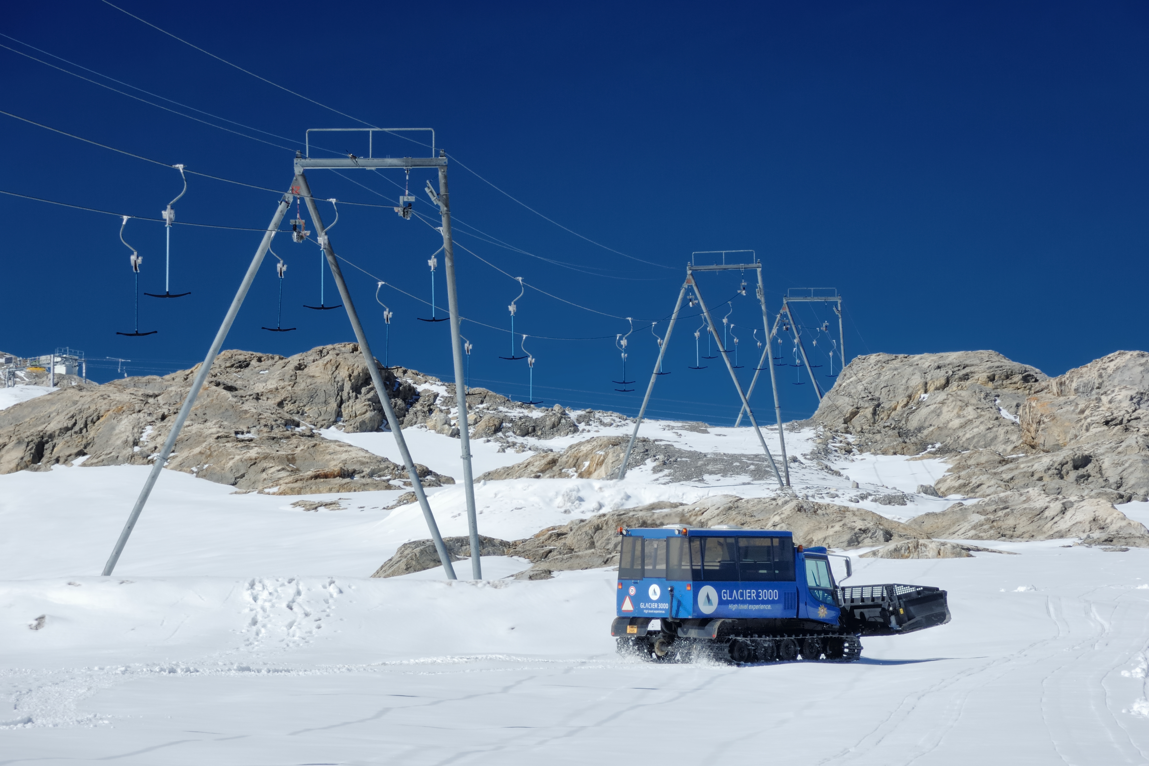 Ski area on the Tsanfleuron Glacier (Glacier 3000), at the last day of the 2016 summer. View from the Tsanfleuron skilift towards the Dôme at approx. 2850 metres above sea level.